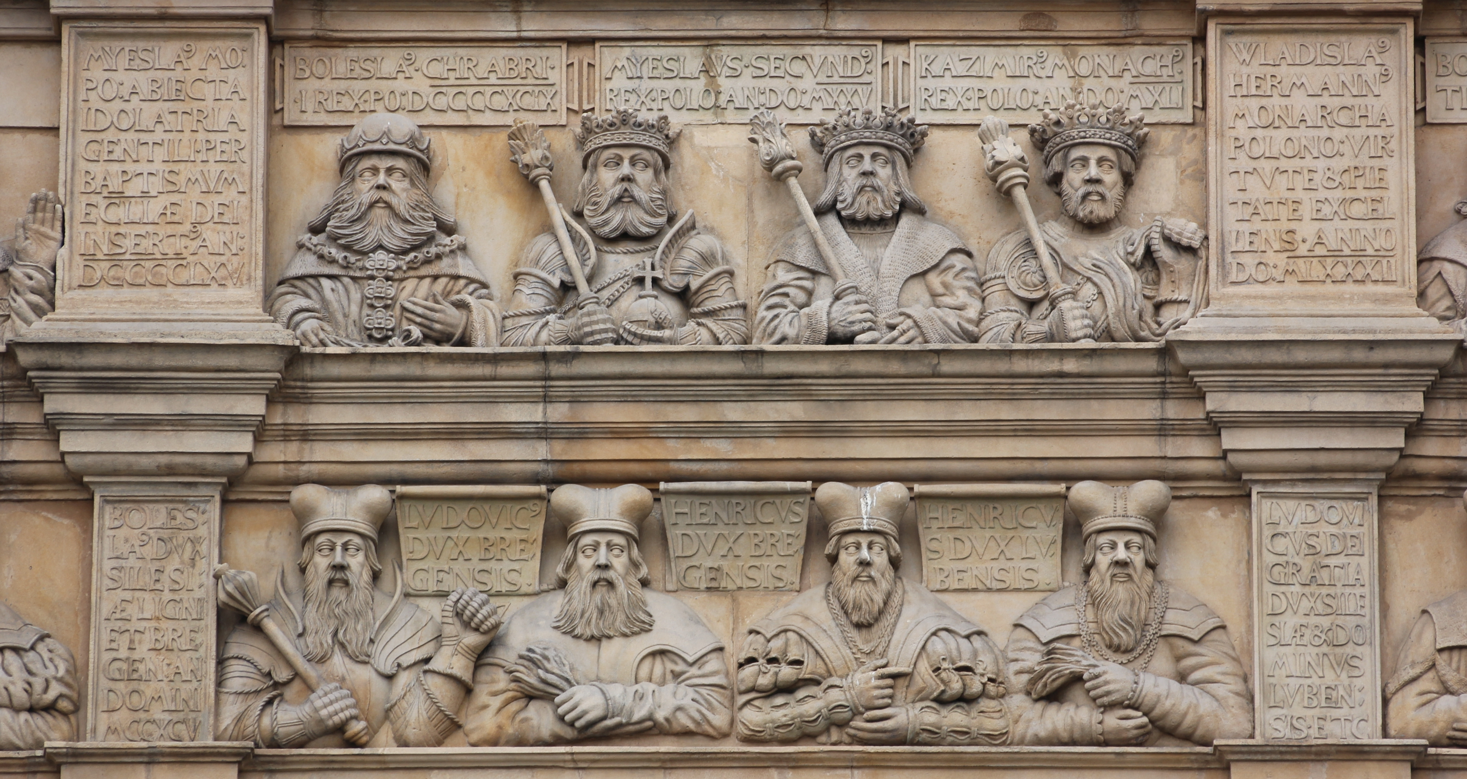 Brzeg - Castle